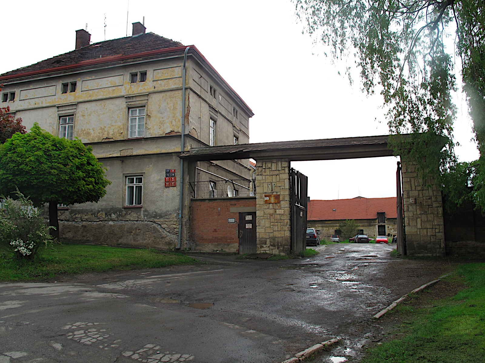 Ruzyne Prague, Prison, Vaclav Havel was held captive here